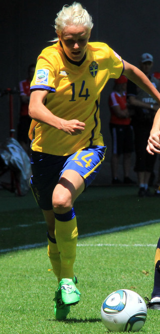 Josefine Oqvist playing for Sweden in the 2011 FIFA Women's World Cup